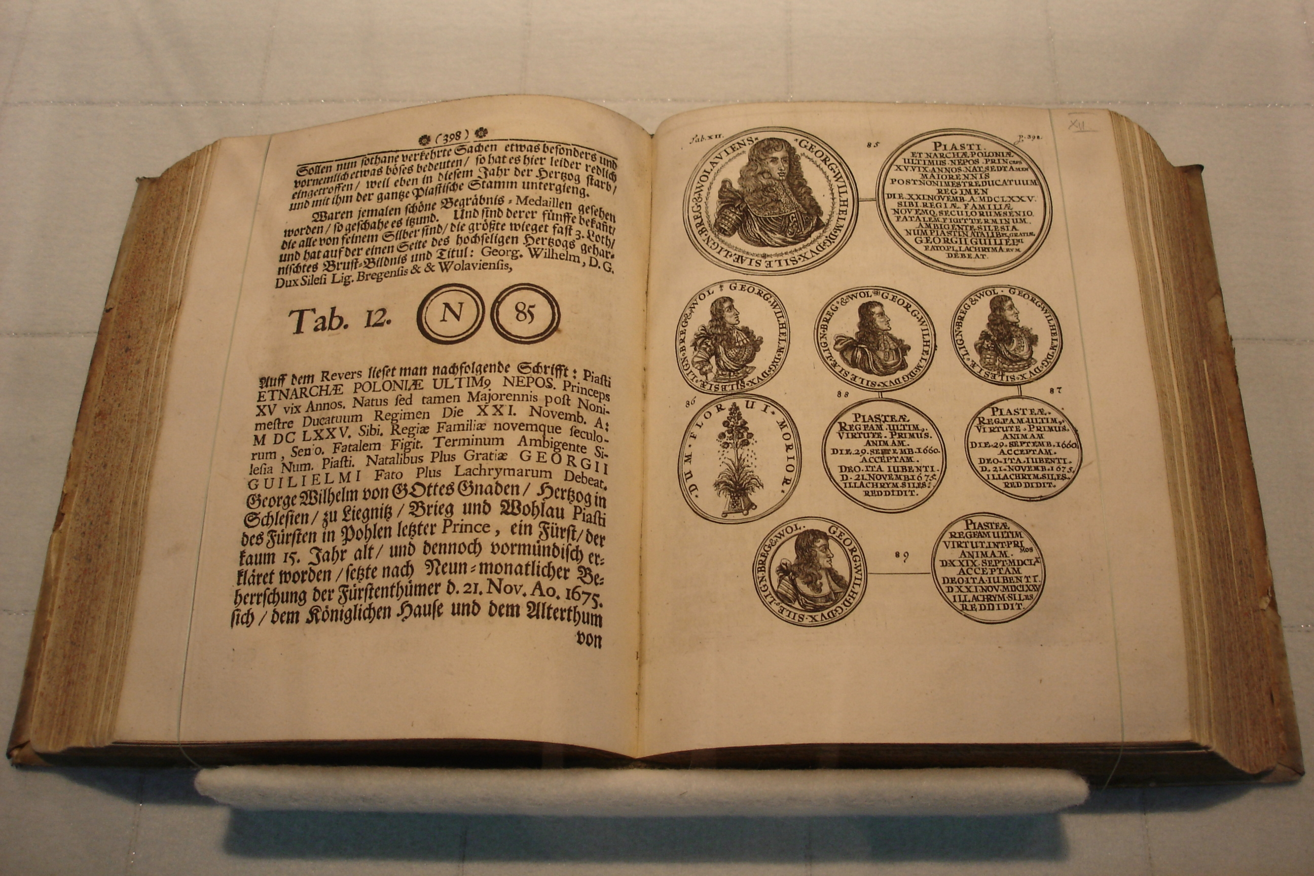 Pages 398–399 from Silesia numismatica oder Einleitung zu dem Schlesischen Müntz=Cabinet by Gottfried Dewerdeck; printed by Johann Gottfried Weber in Jauer (Jawor), 1711.